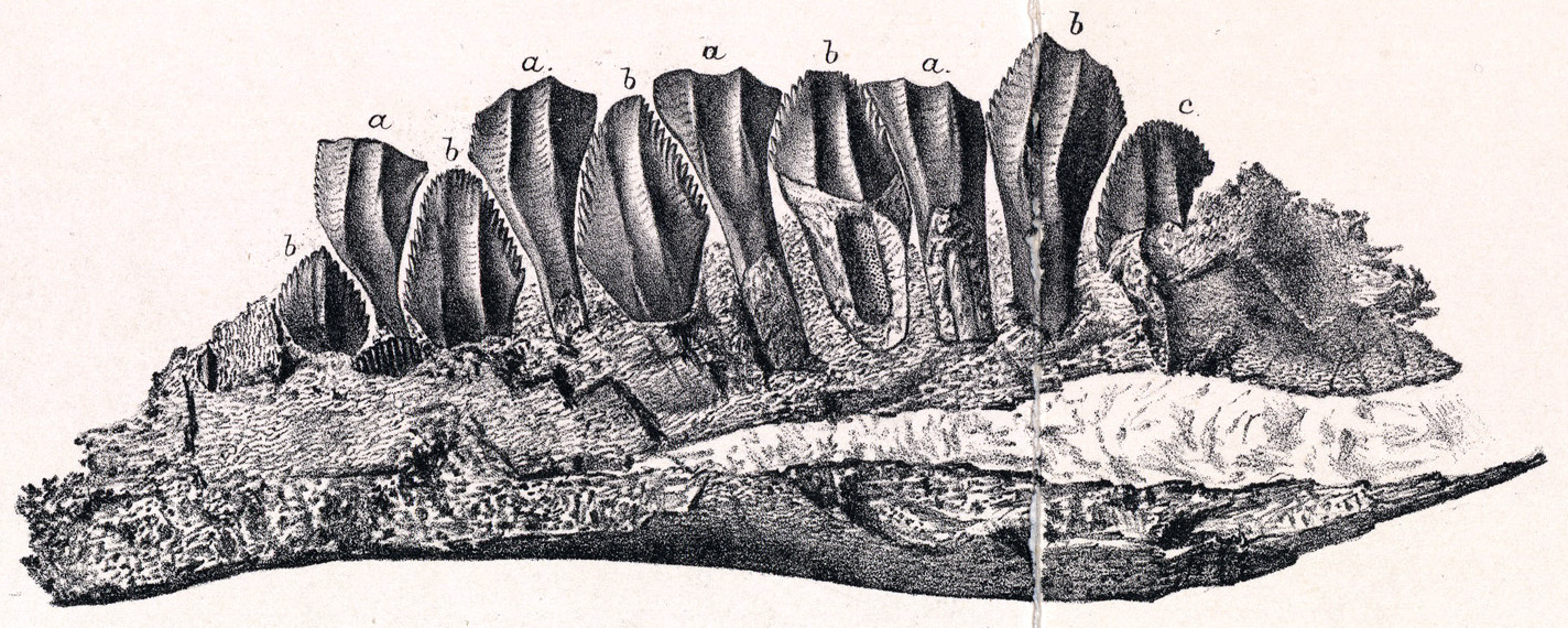 Owenodon (Iguanodon) hoggii lower jaw, from original description. Part of right mandibular ramus and teeth, inner side view, of a younger individual.